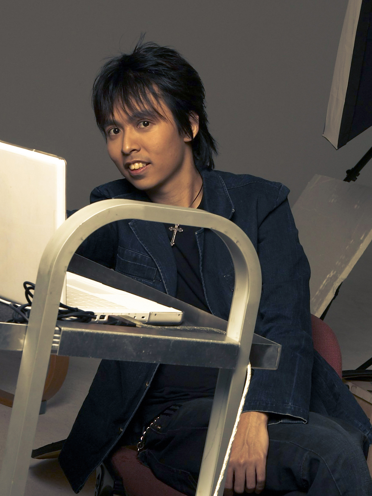 Tzang Merwyn Tong on the film set